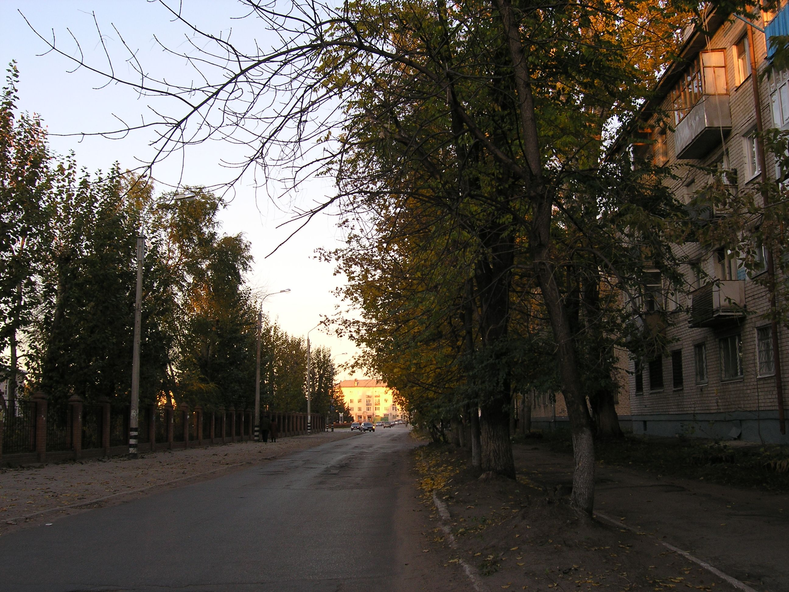 Pushkin street, Togliatti, Russia